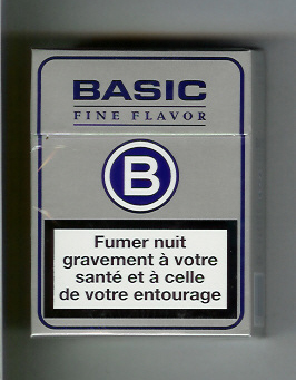 Warning on the French Cigarettes Pack